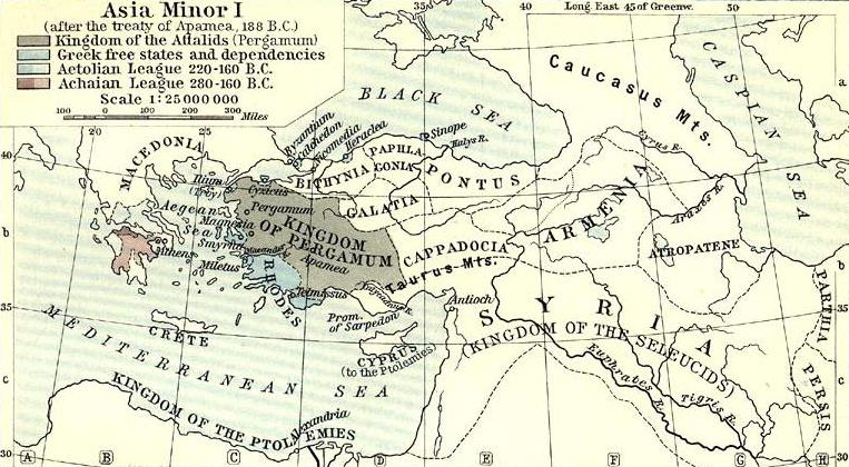 Segment of a map from the atlas.